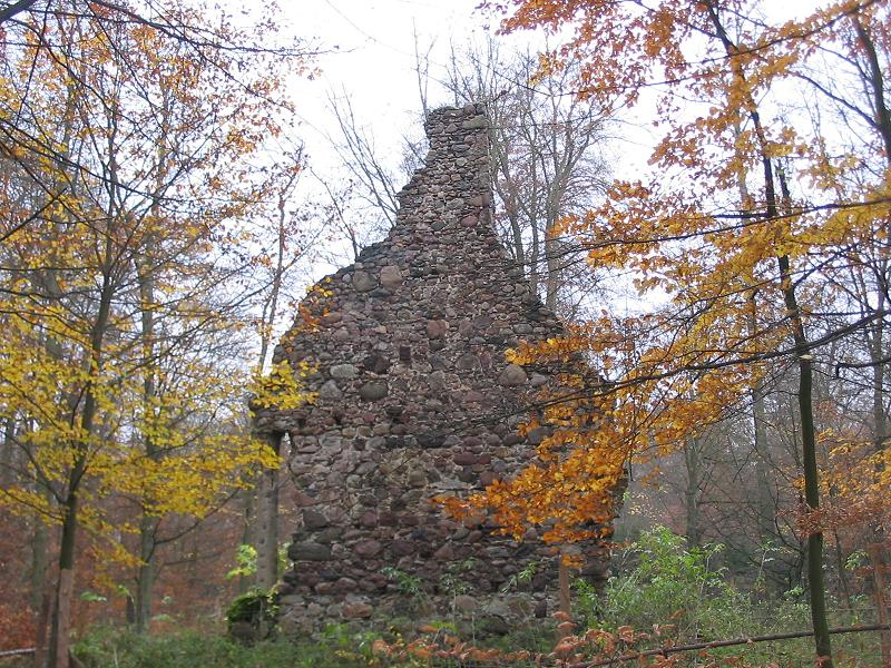 Ruin of the stonechurch in the abandoned village Schleesen, built probably in the first half of the 12th century. The ruin is situated in the north of the municipality Stackelitz in the nature park Fläming. Stackelitz belongs to the district Wittenberg, state Saxony-Anhalt, Germany.